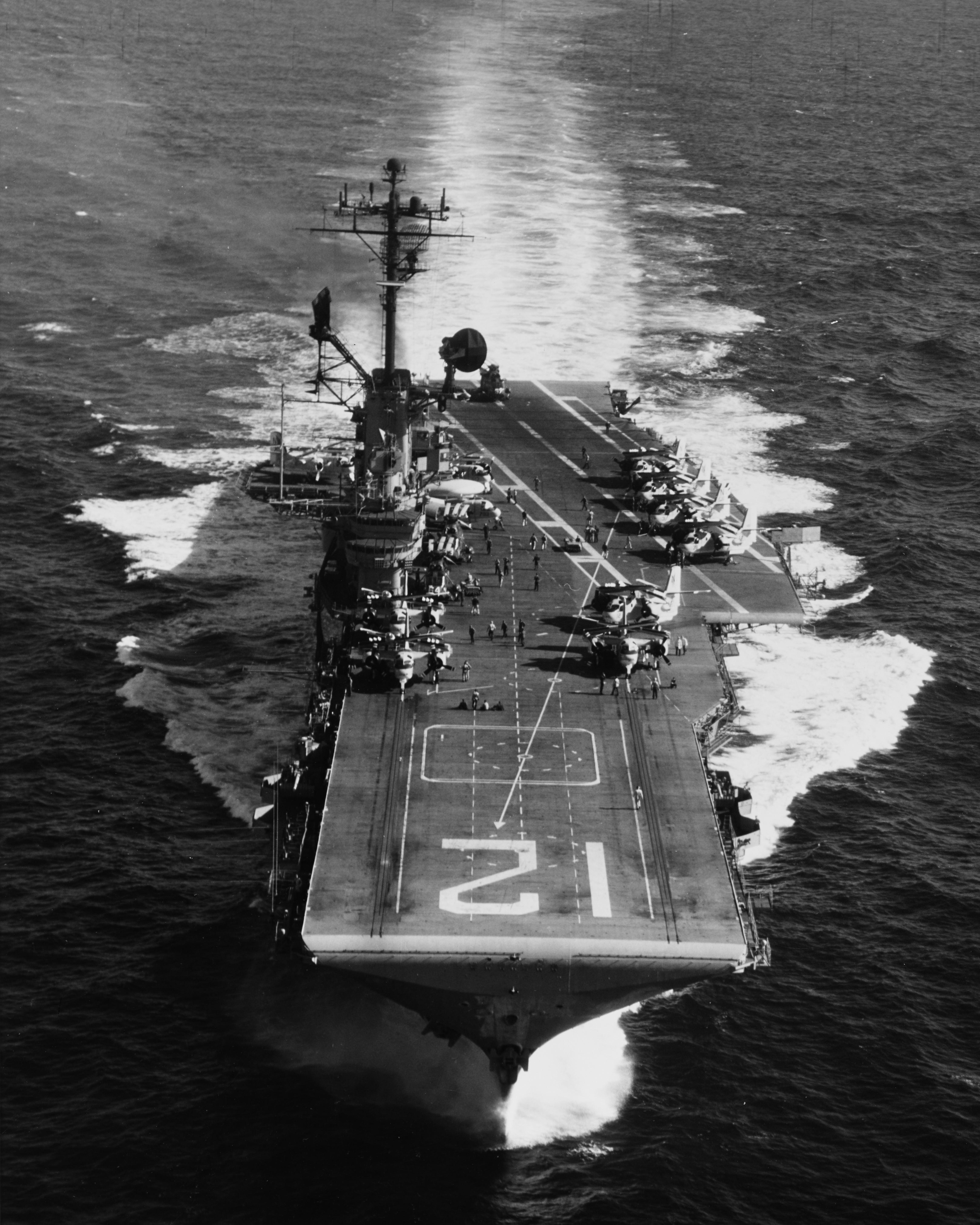 The U.S. Navy aircraft carrier USS Hornet (CVS-12) underway on 9 August 1968, shortly before her final Seventh Fleet deployment from 30 September 1968 to 12 May 1969 to the Western Pacific and Vietnam. On deck are various aircraft of Carrier Anti-Submarine Air Group 57 (CVSG-57).